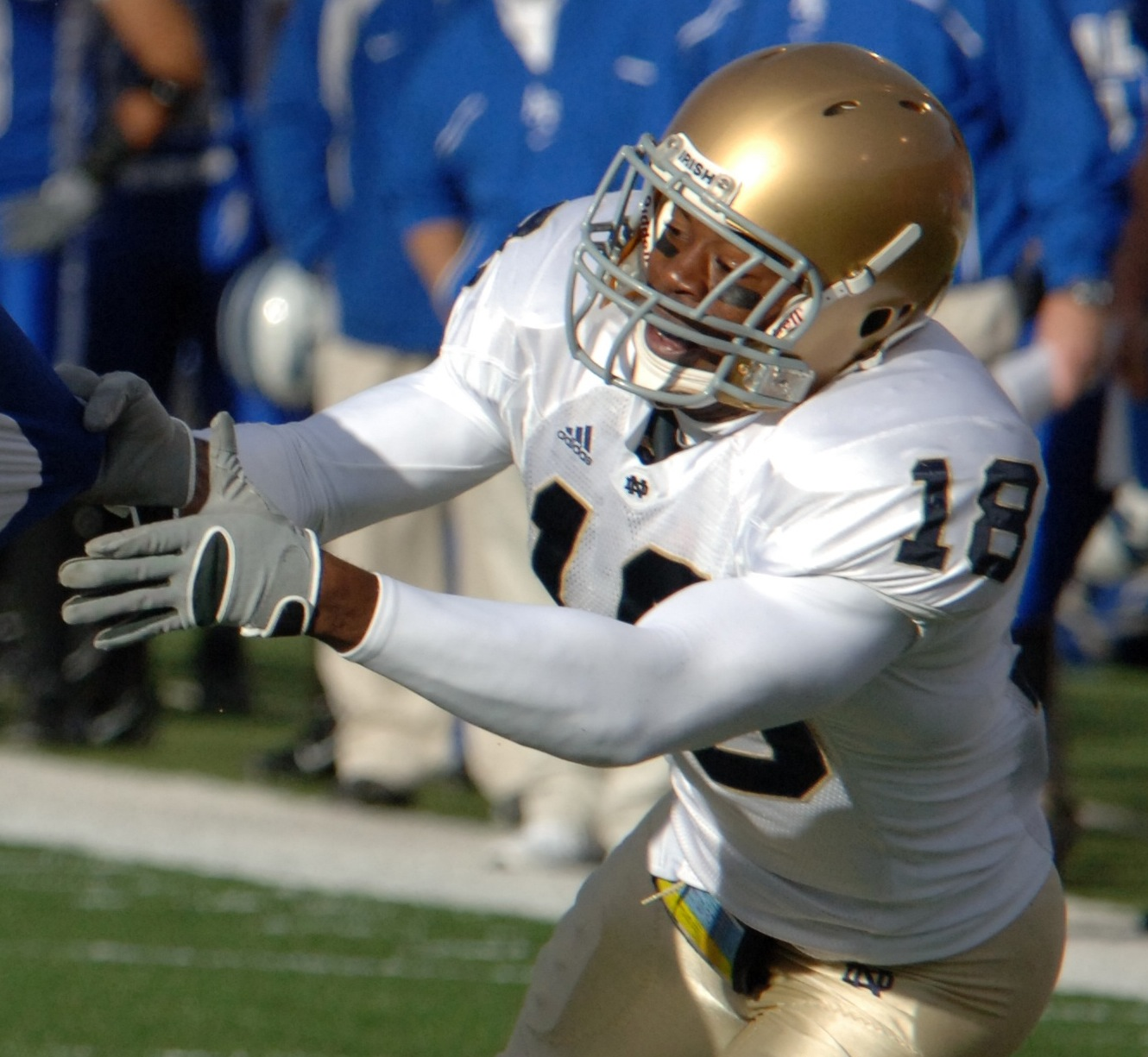 Air Force halfback Chad Hall nearly escapes the grasp of Notre Dame defensive back Chinedum Ndukwe.